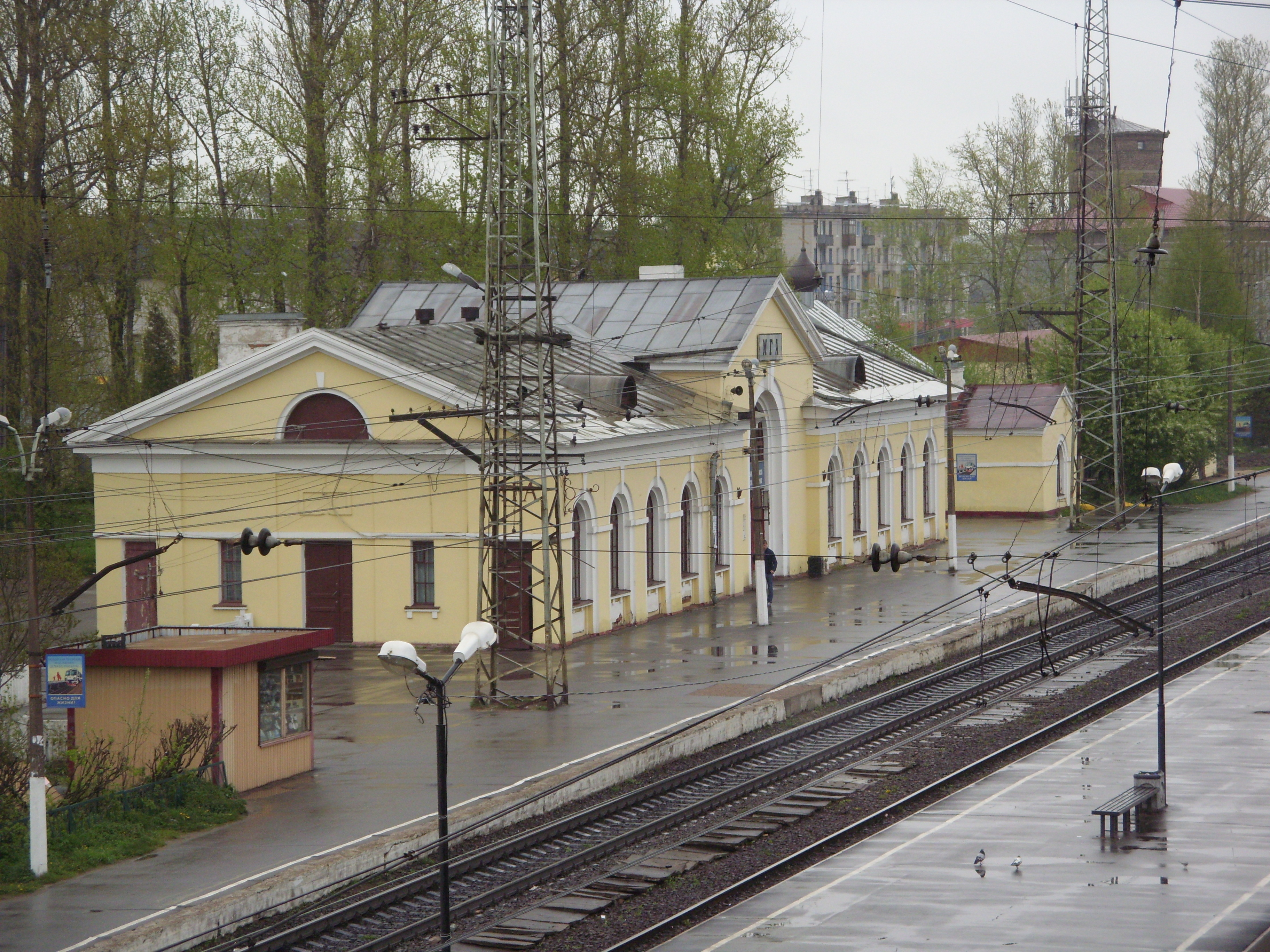 Mga. Vokzal.